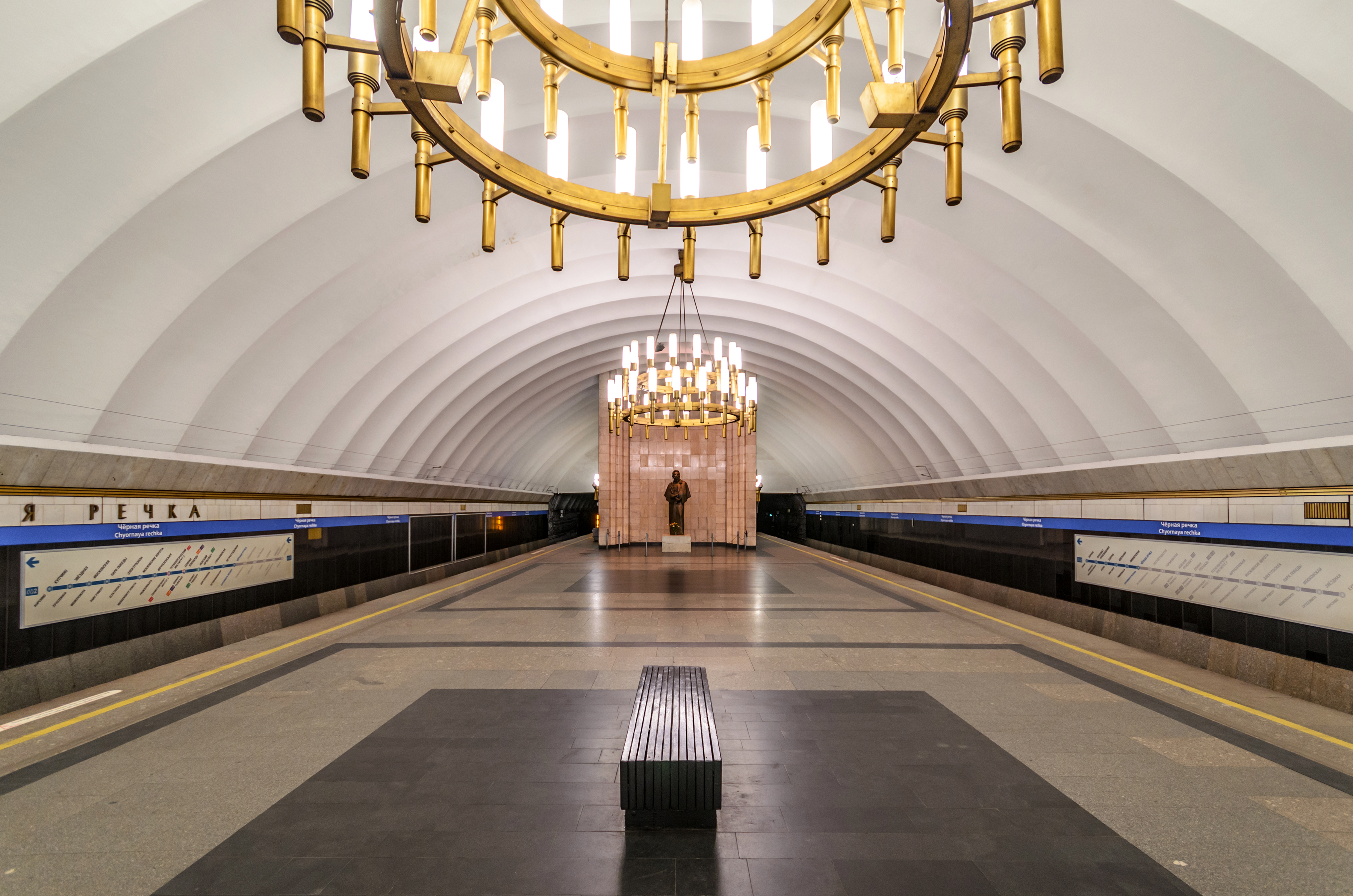 Chyornaya rechka station of Saint Petersburg Subway